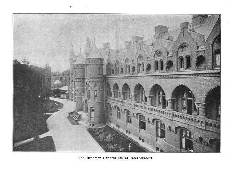 The Brehmer Sanatorium at Goerbersorf